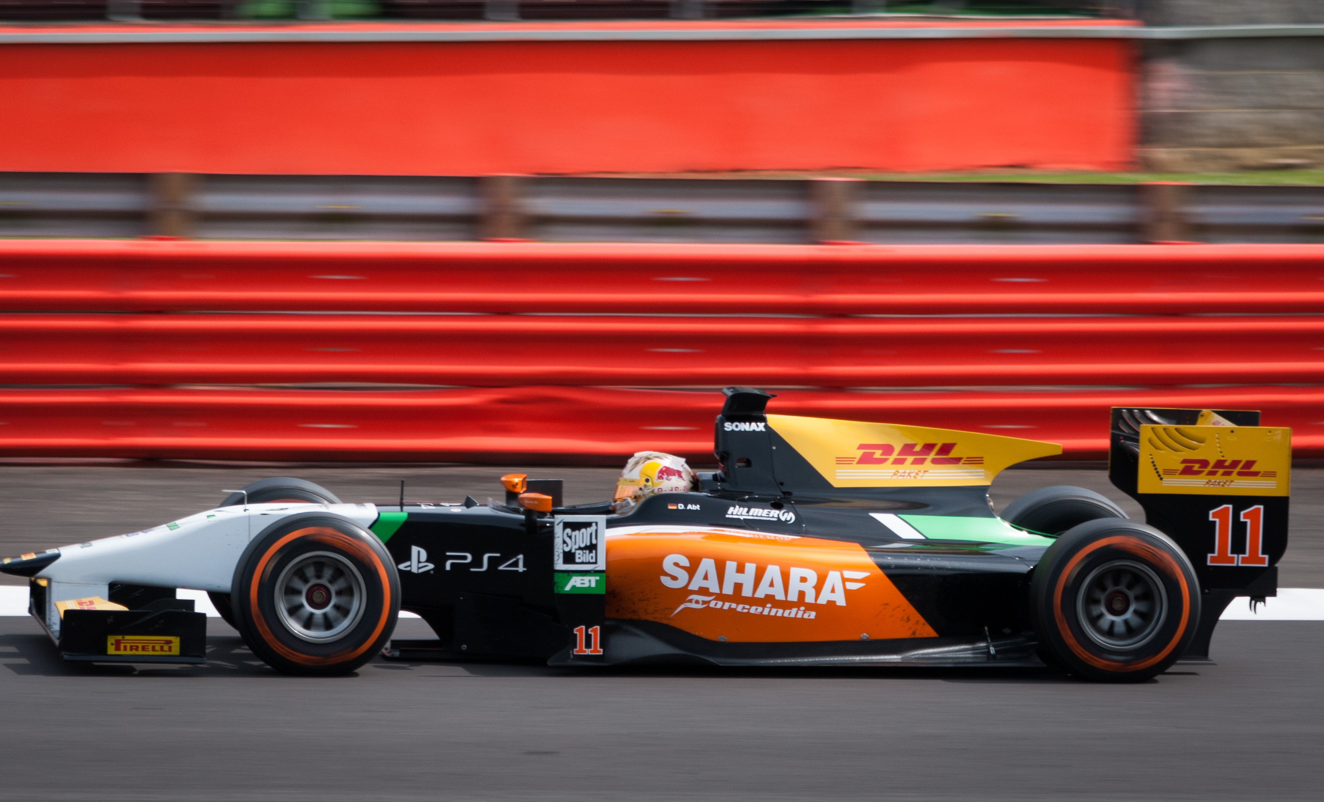 Daniel Abt driving for Hilmer Motorsport at Silverstone. Round 5 of the 2014 GP2 Series Championship.